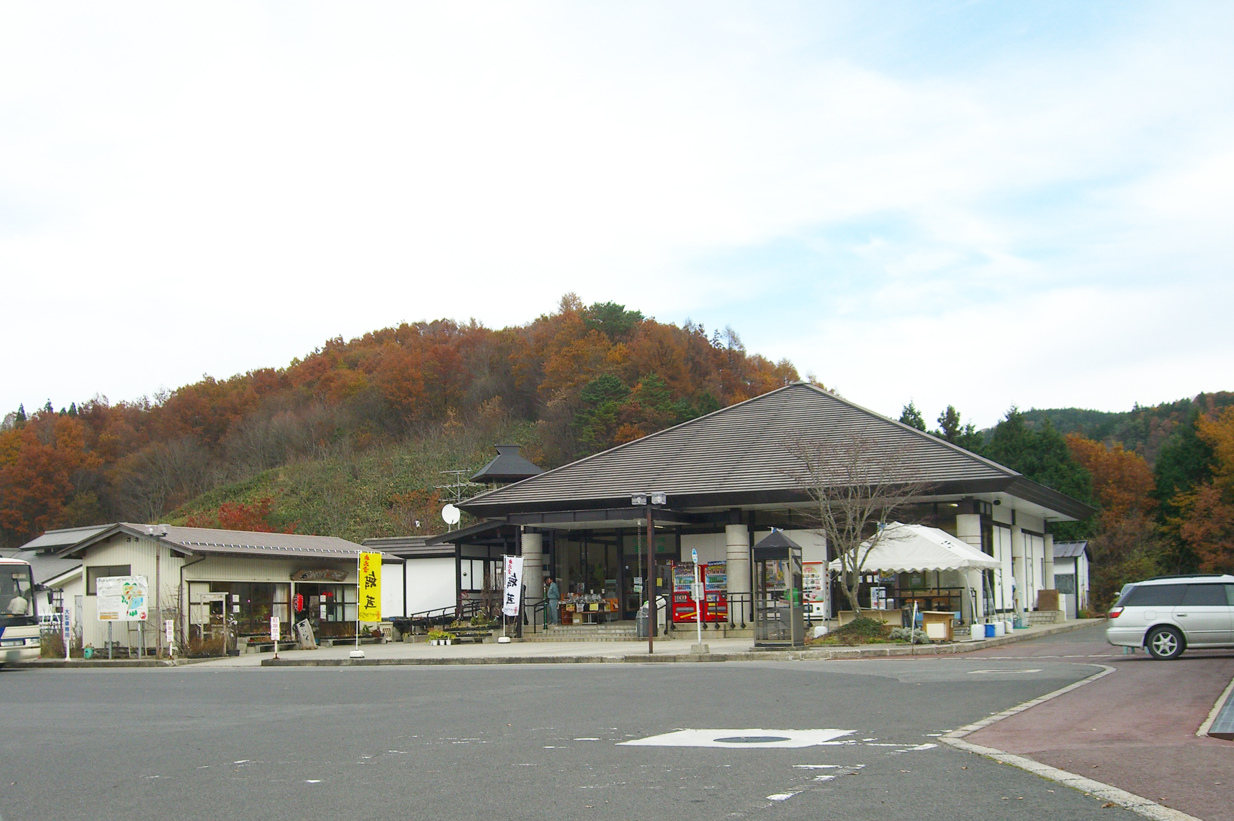 Road side Station Okuizumo.